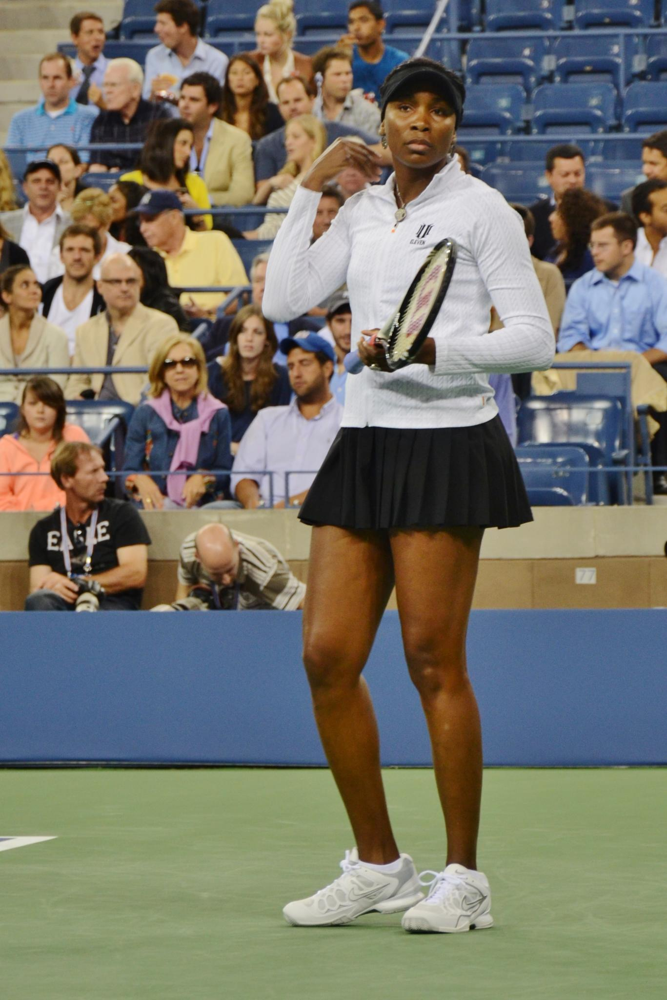 Venus Williams at the 2011 US Open